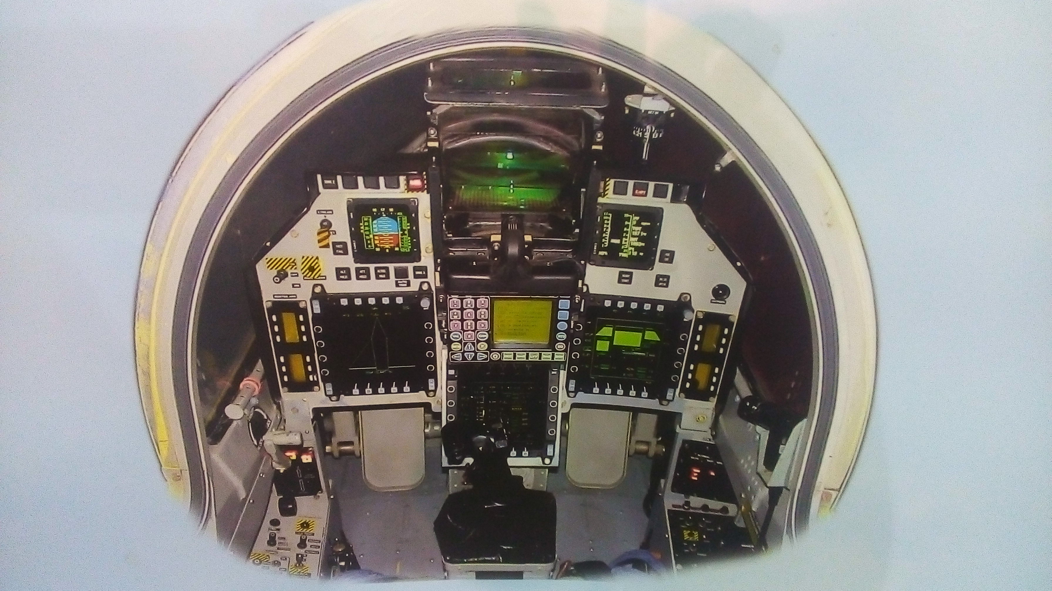 Tejas cockpit image